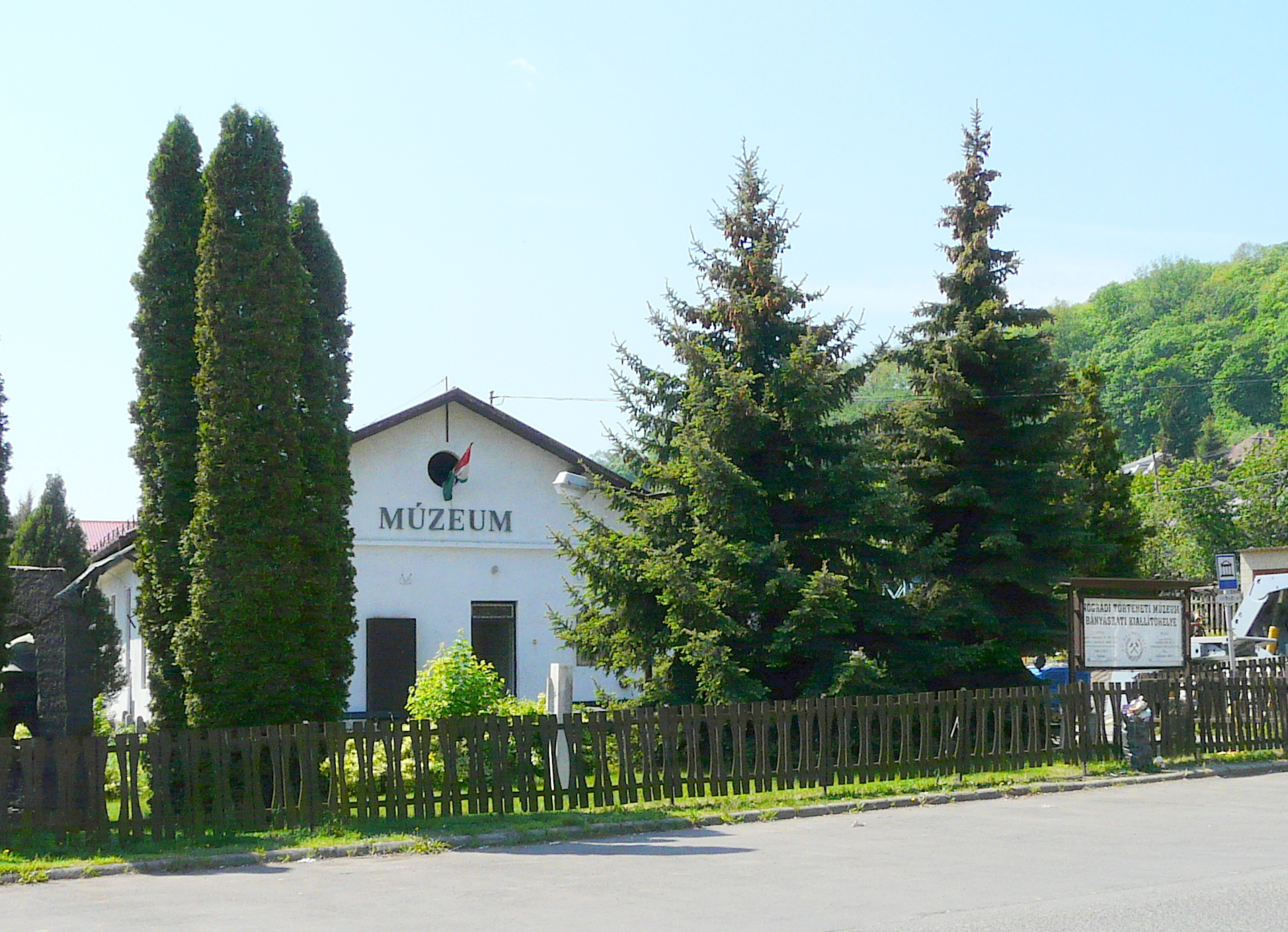 Museum for mining, Salgótarján, Hungary